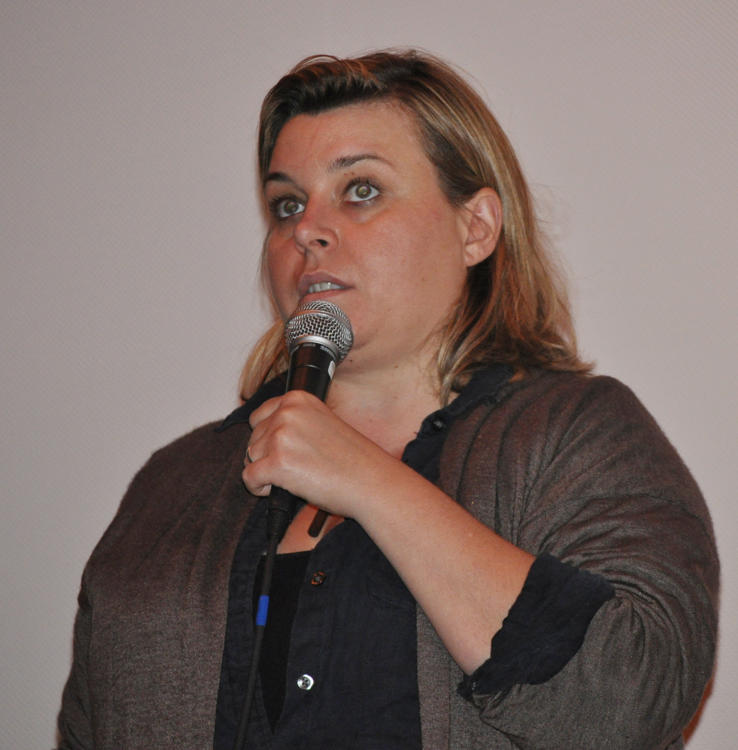 Canadian film director Larysa Kondracki speaking at the Seattle International Film Festival, Seattle, Washington.